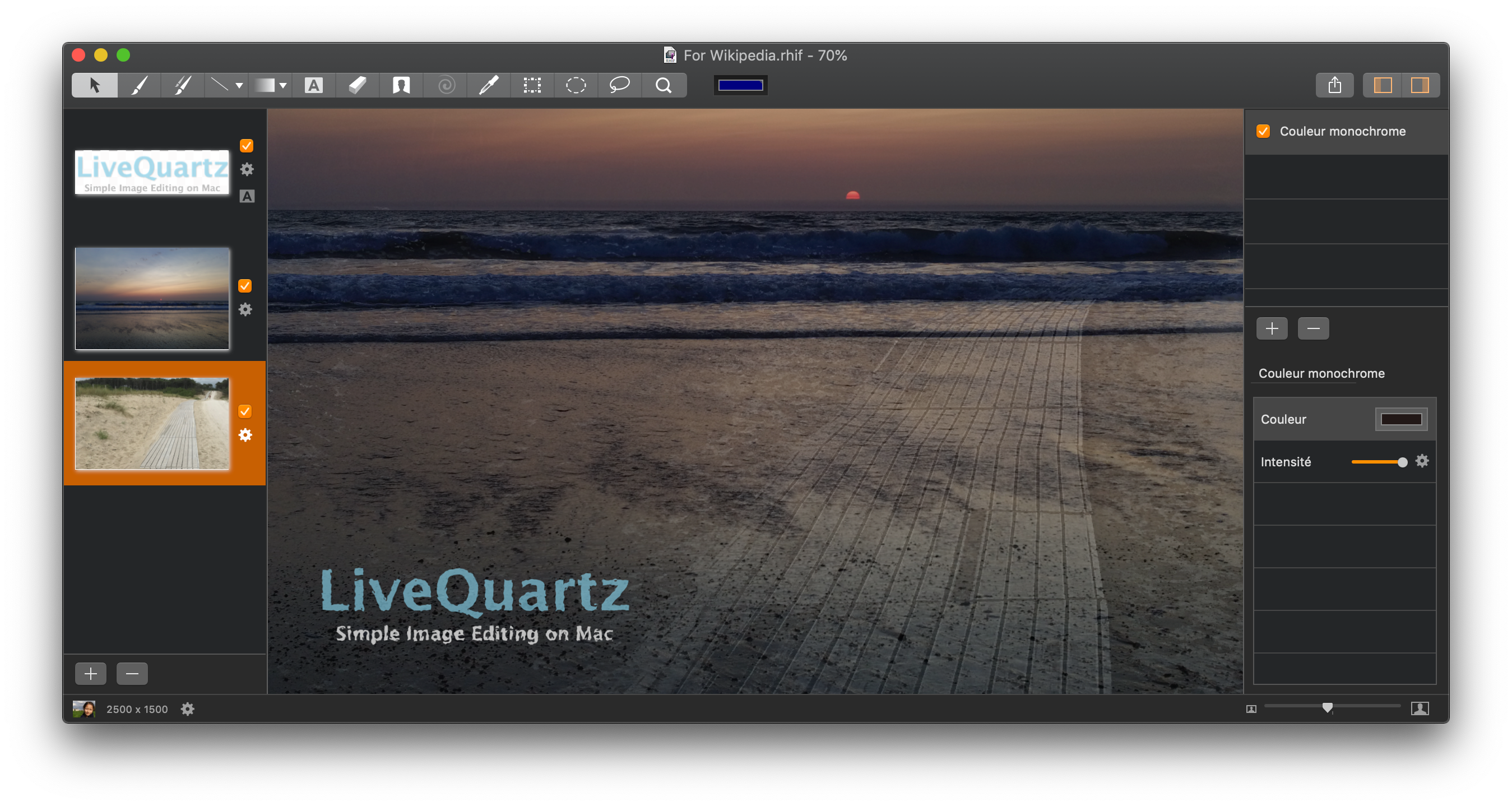 Screenshot of LiveQuartz Image Editor.